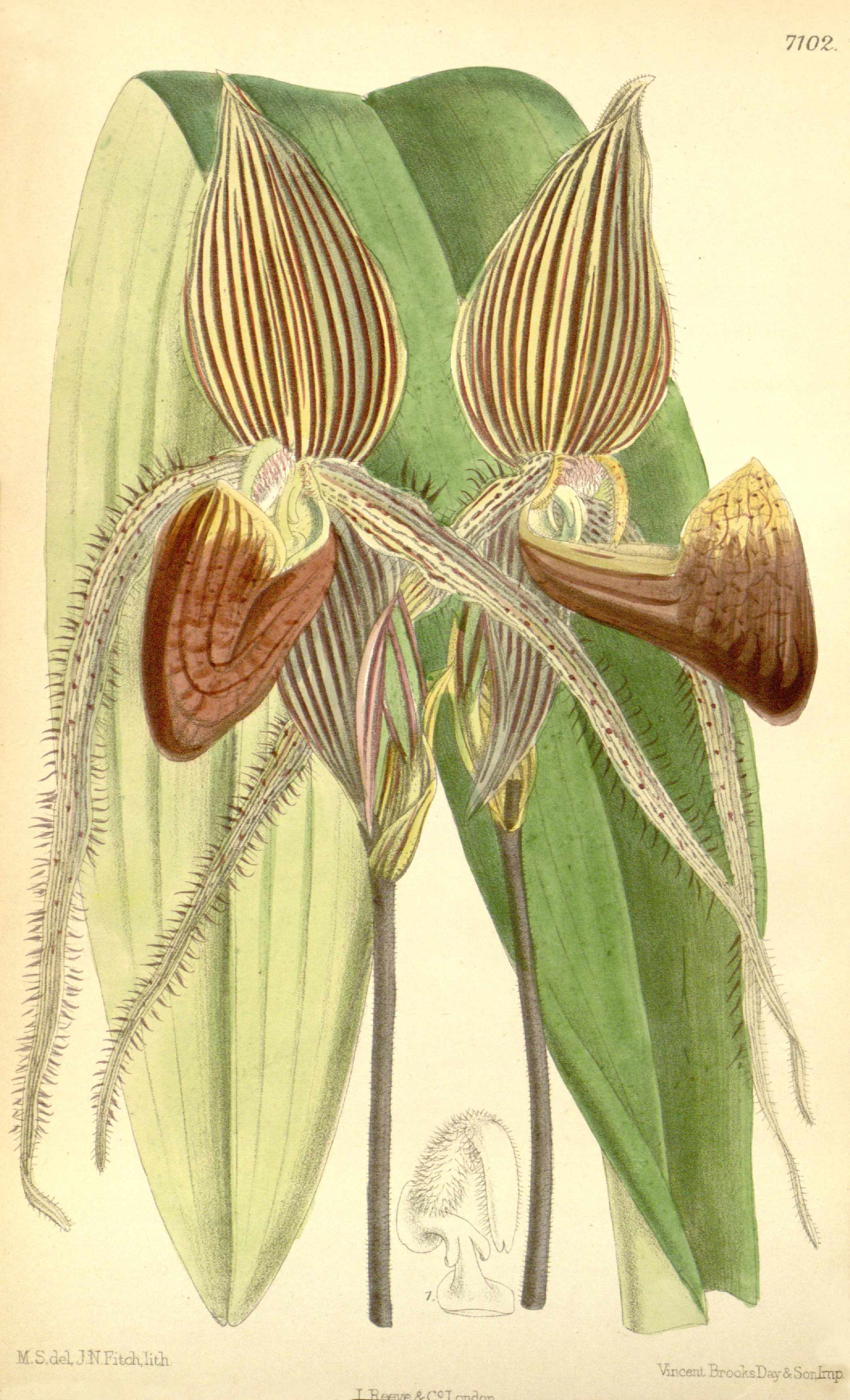 Illustration of Paphiopedilum rothschildianum (as syn. Cypripedium rothschildianum)